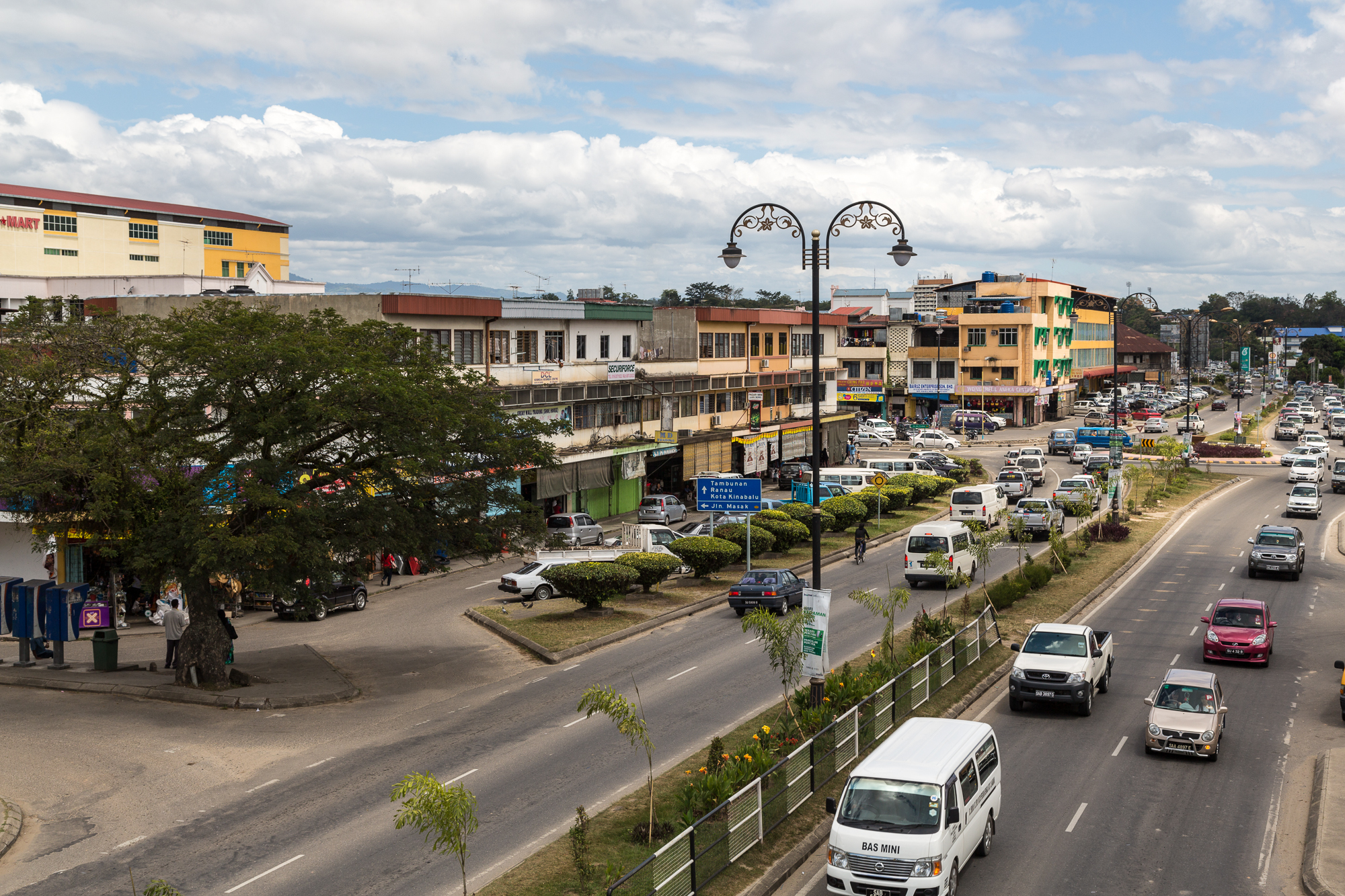 Keningau, Sabah: View of Keningau town from flyover near St. Francis Xavier school.